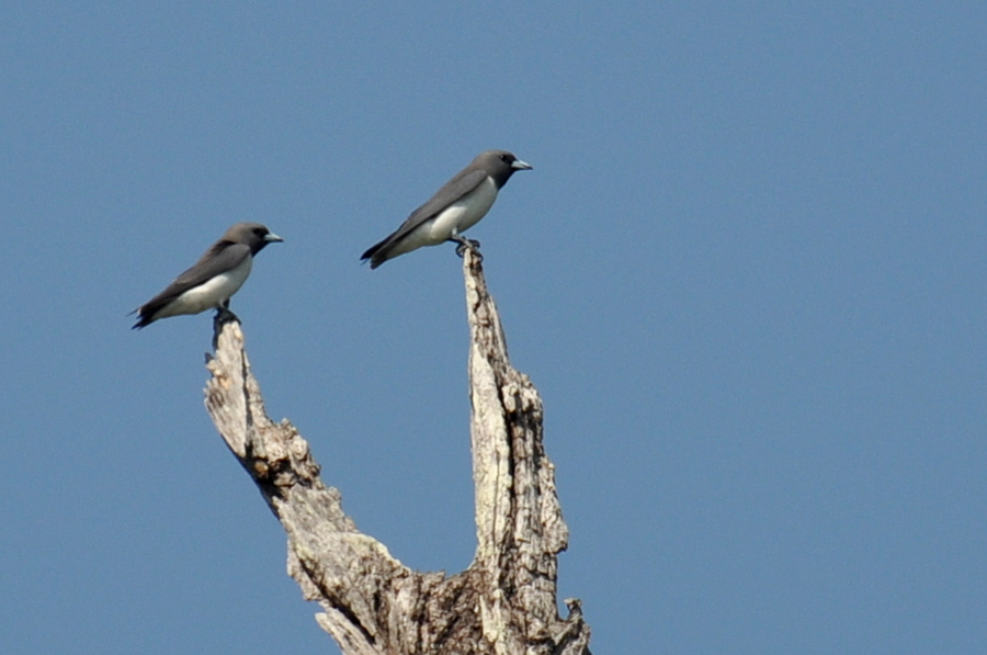 White-breasted Woodswallow (Artamus leucorynchus) pair perched, Andamans, India